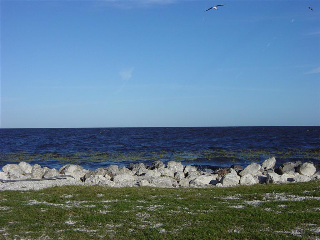 View looking across Lake Okeechobee from Pahokee, Florida January 26, 2006